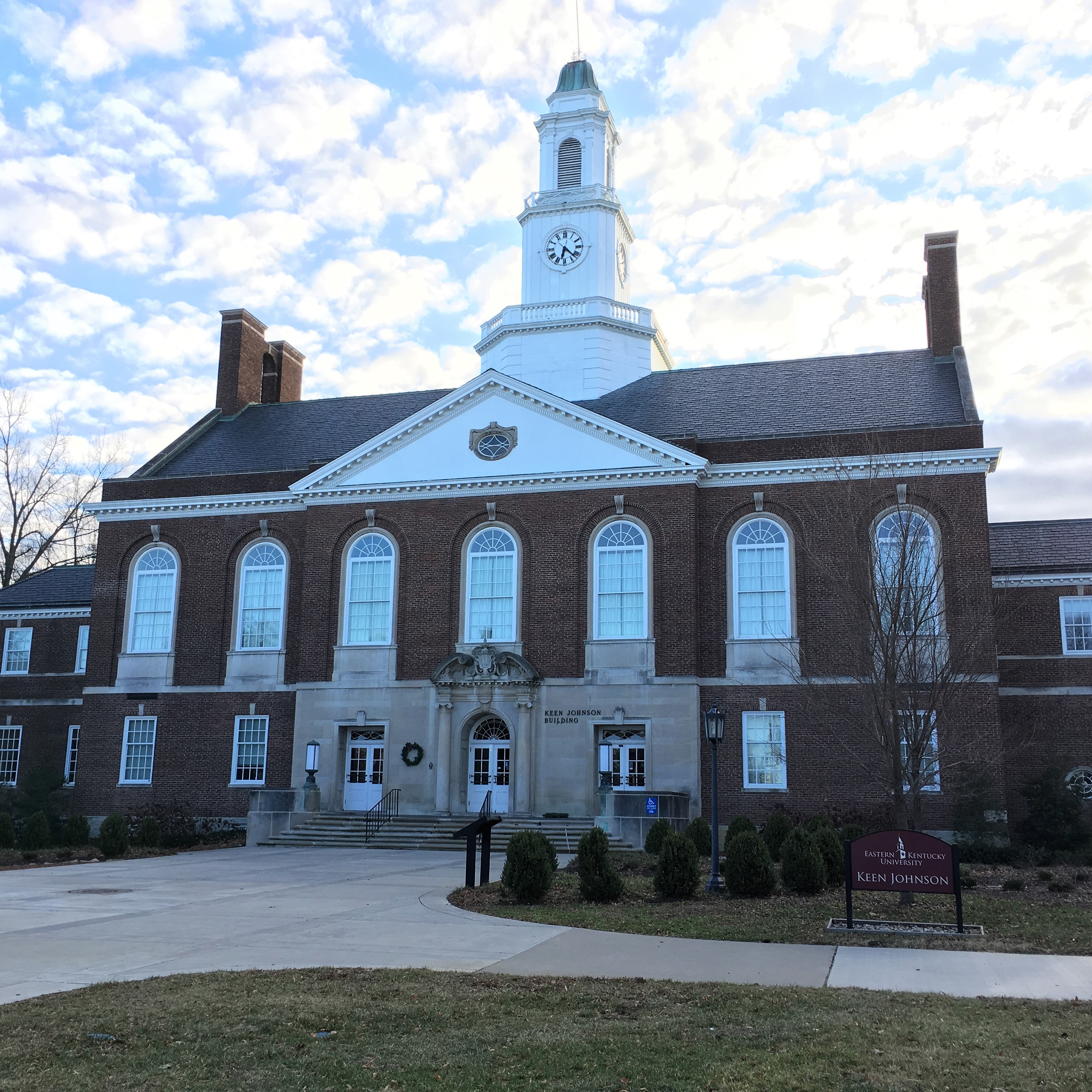 EKU Keen Johnson Building